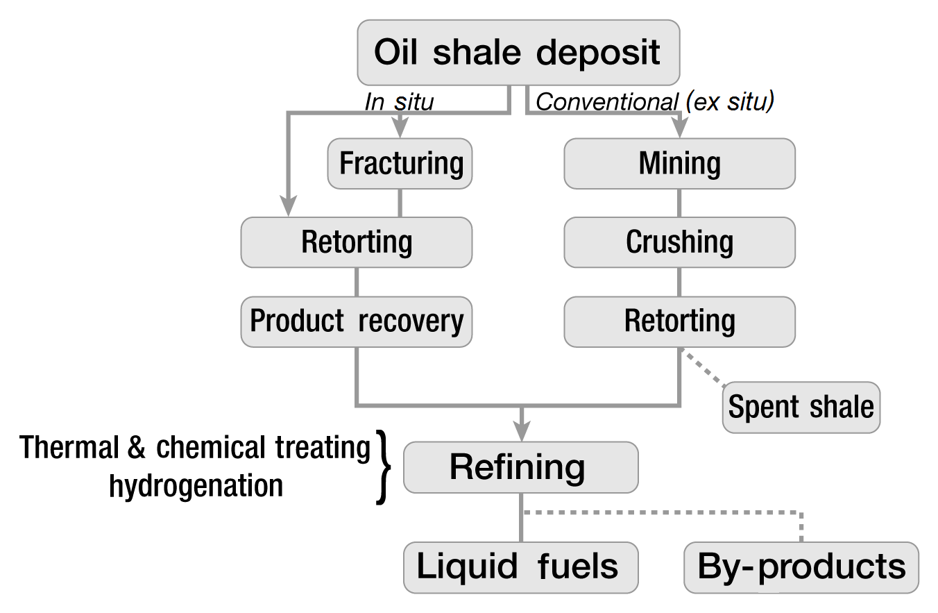 Oil shale process diagram, some details removed by uploader